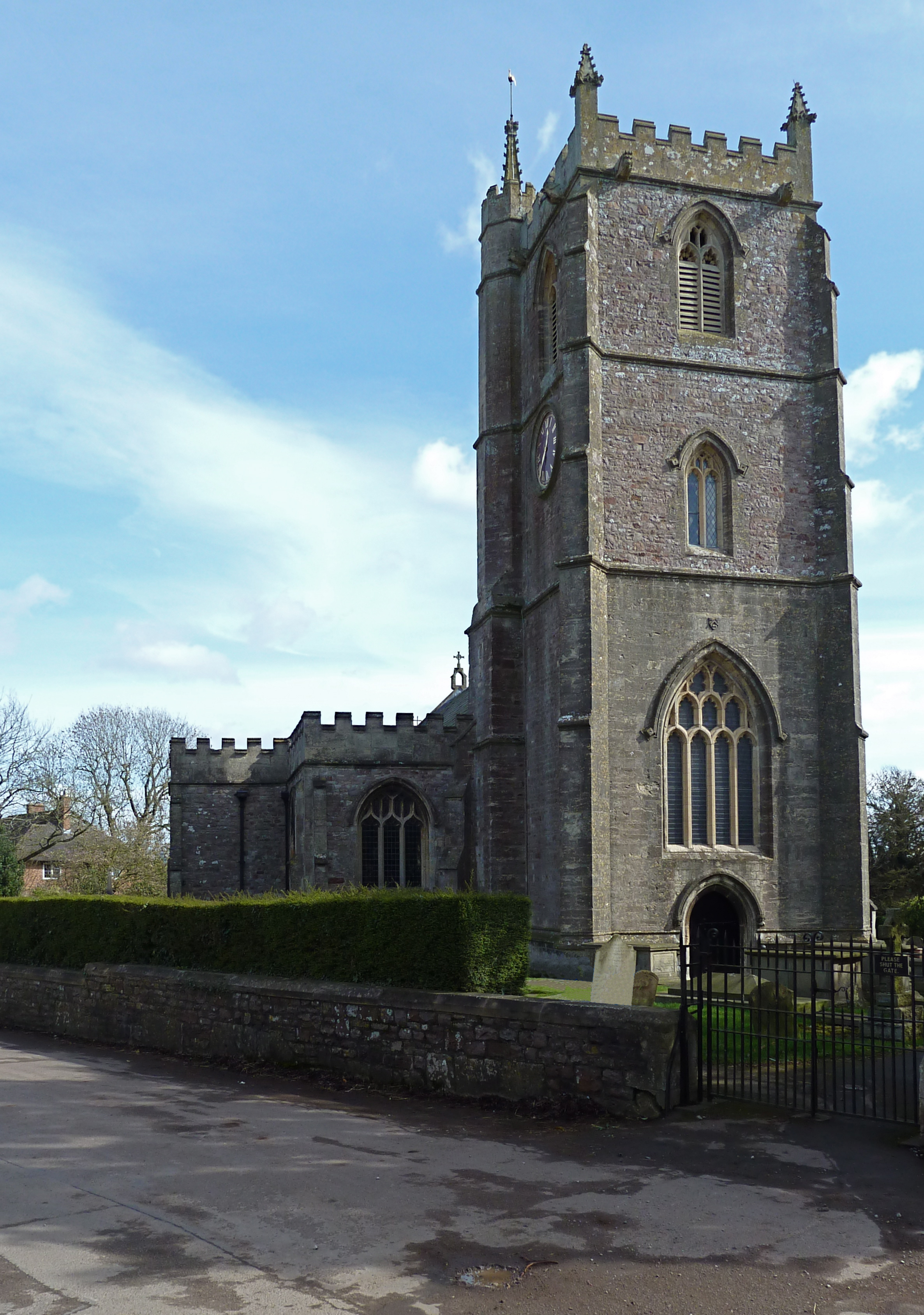 All Saints' parish church, Long Ashton, Somerset, seen from the west